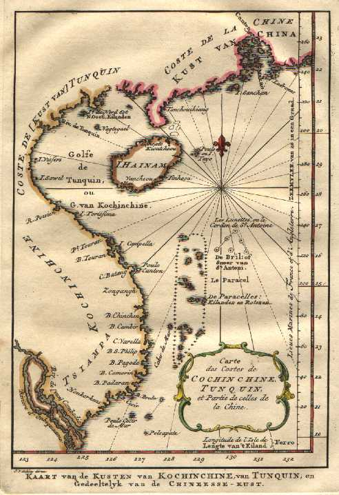 acob van der Schley was a Dutch engraver who, in 1754, produced a series of maps identical to those of Jacques Bellin for a Dutch edition of “Histoire Générale des Voyages”. This fine copperplate map from that edition depicts the Chinese and Vietnamese coasts from Macau in the north to the Mekong delta in the south. Hainan Island is prominent with a number of settlements shown while on the mainland of China, Macau and Canton are marked. A compas rose and small decorative title cartouche are nice features.